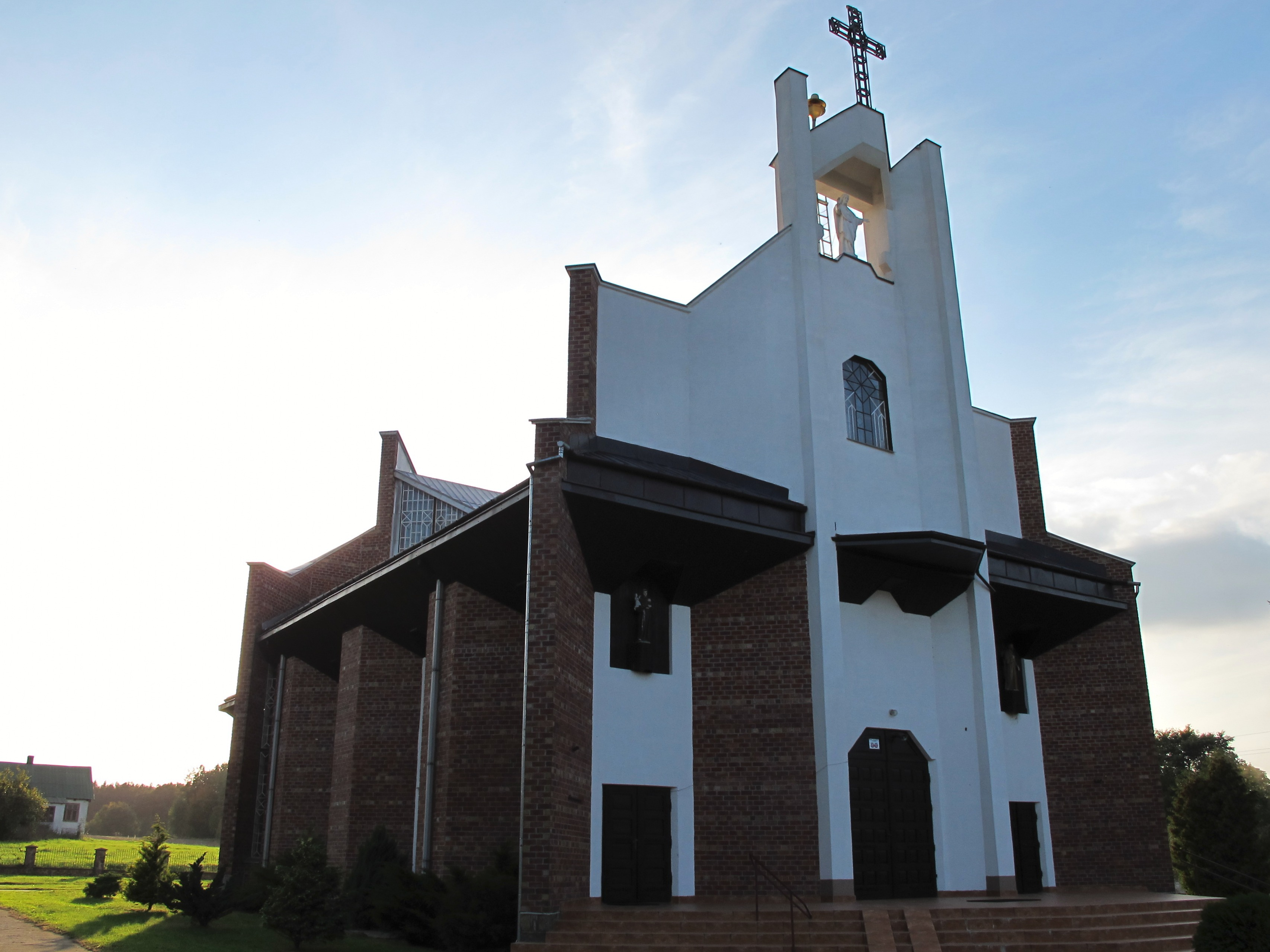 Sacred Heart of Jesus church in Jaświły, gmina Jaświły, podlaskie, Poland